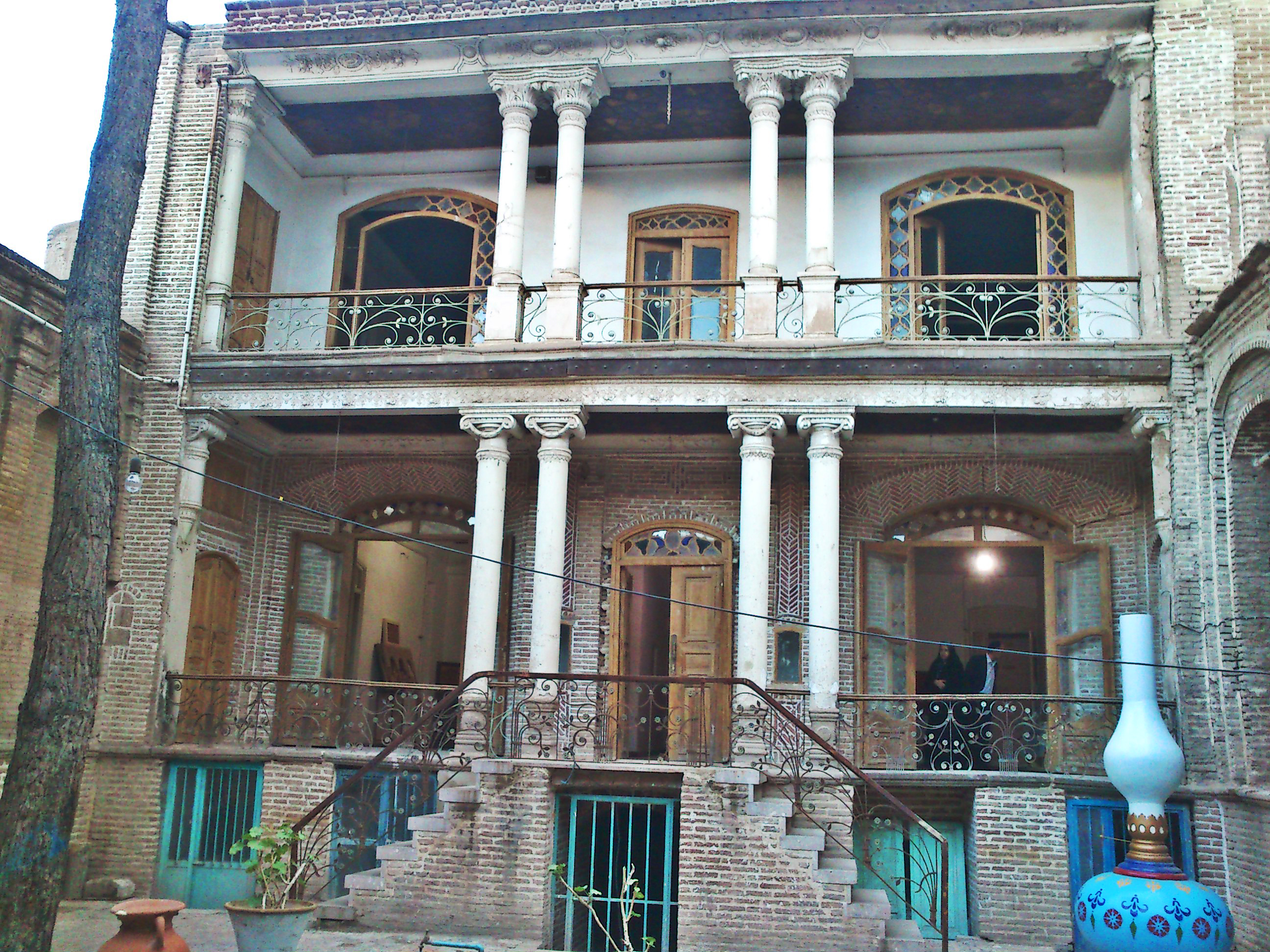 Arazi house __ qazvin city __ iran